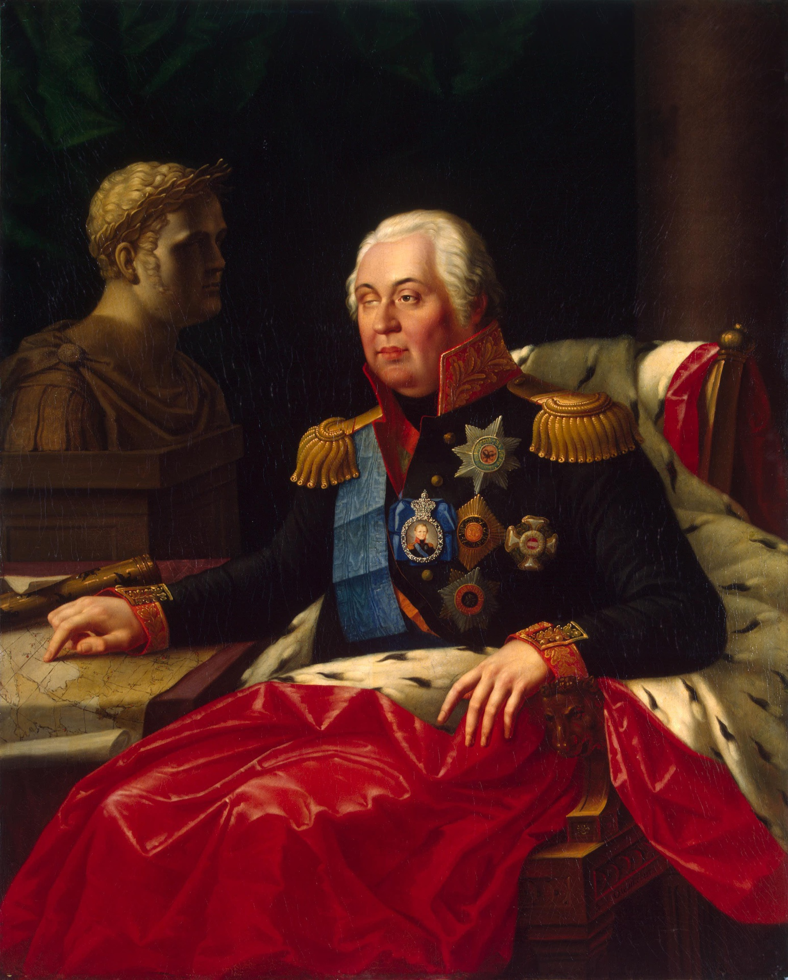 Portrait of Mikhail Kutuzov (Golenishchev-Kutuzov, Prince of Smolensk)